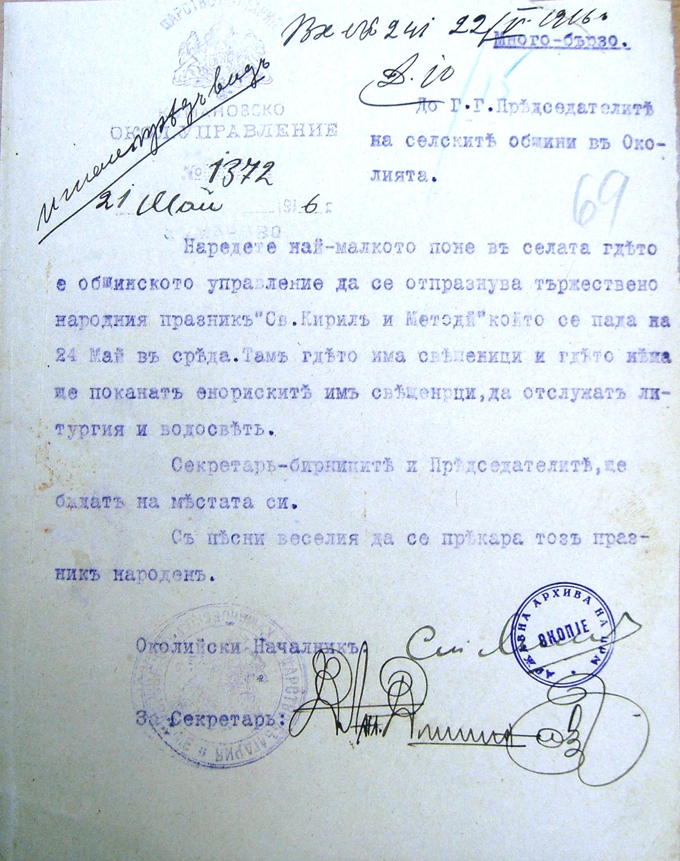 Order to celebrate the holiday of "St. Cyril and Methodius". (21 May 1916) This media file is produced by Wikipedian in Residence in Category:Wikipedian in Residence at DARM in 2016.